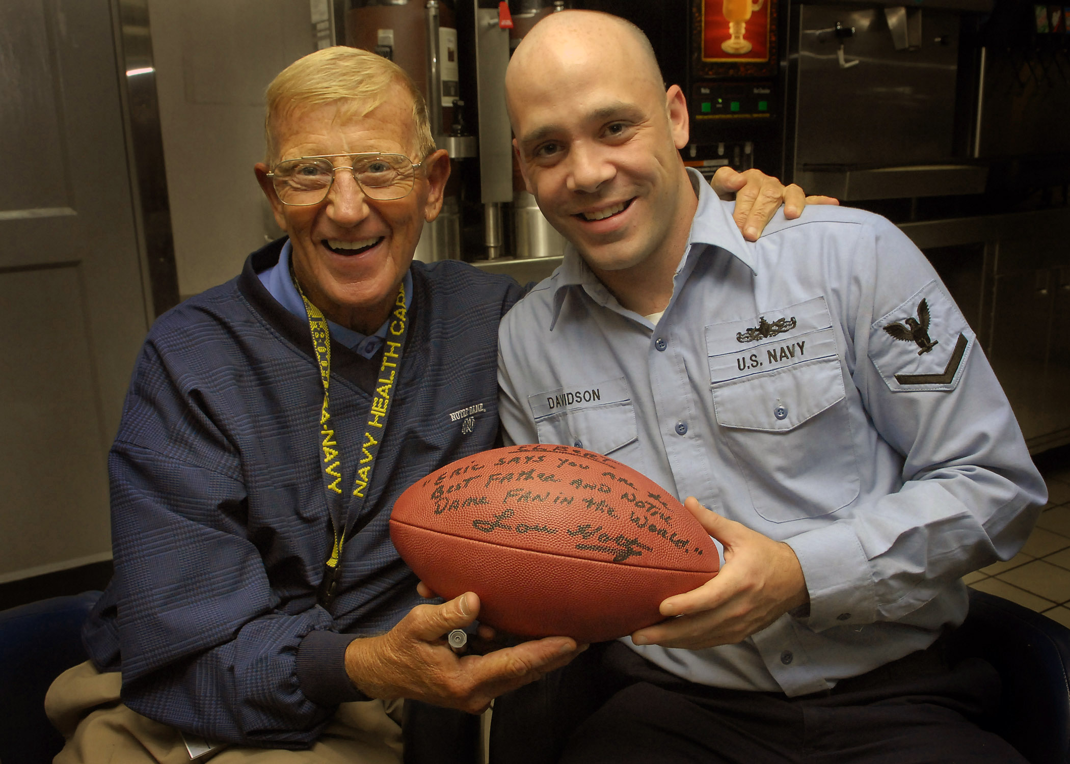 Legendary NCAA Football Coach Lou Holtz poses for a photo with Storekeeper 3rd Class Eric Davidson after signing a football for Davidson’s father. Holtz, also a best-selling author and motivational speaker, visited Nimitz-class aircraft carrier USS Abraham Lincoln (CVN 72) to tour the ship and meet Sailors.